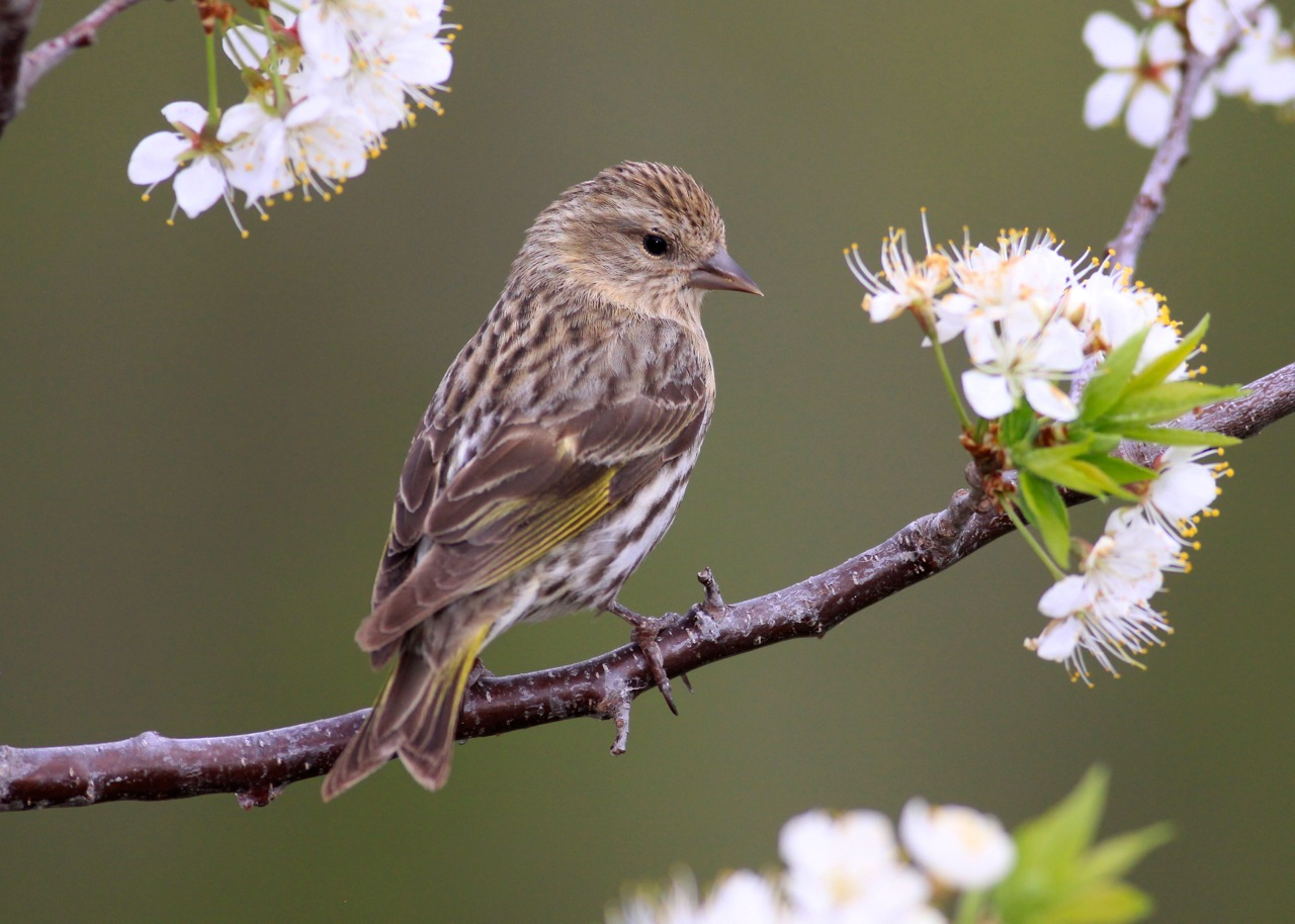 Sandy Lake, Two Hills County, Alberta I clamped a branch from a flowering plum on my deck near a feeder. It made an attractive perch.